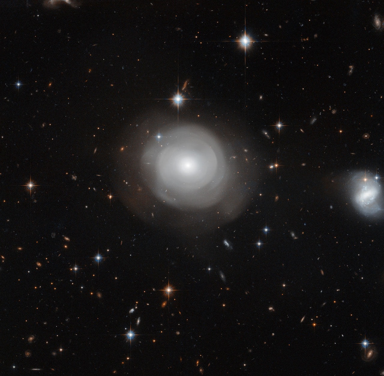 The ghostly shells of galaxy ESO 381-12 are captured here in a new image from the NASA/ESA Hubble Space Telescope, set against a backdrop of distant galaxies. The strikingly uneven structure and the clusters of stars that orbit around the galaxy suggest that ESO 381-12 may have been part of a dramatic collision sometime in its relatively recent past.